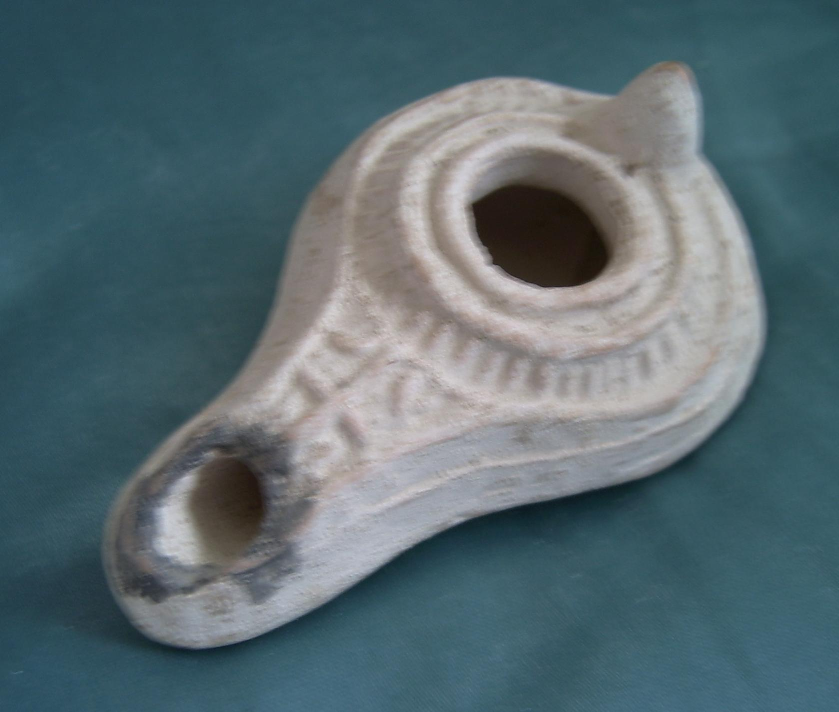 roman Oillamp, around 200 A.D., from the side